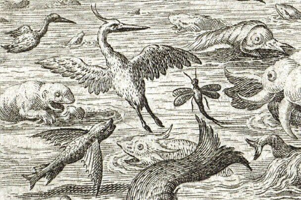 Illustration showing a heron, mayfly, and flying fish by Jan Sadeler after Maarten de Vos, detail from the Fifth Day: The Creation of the Birds and Fishes, c. 1587